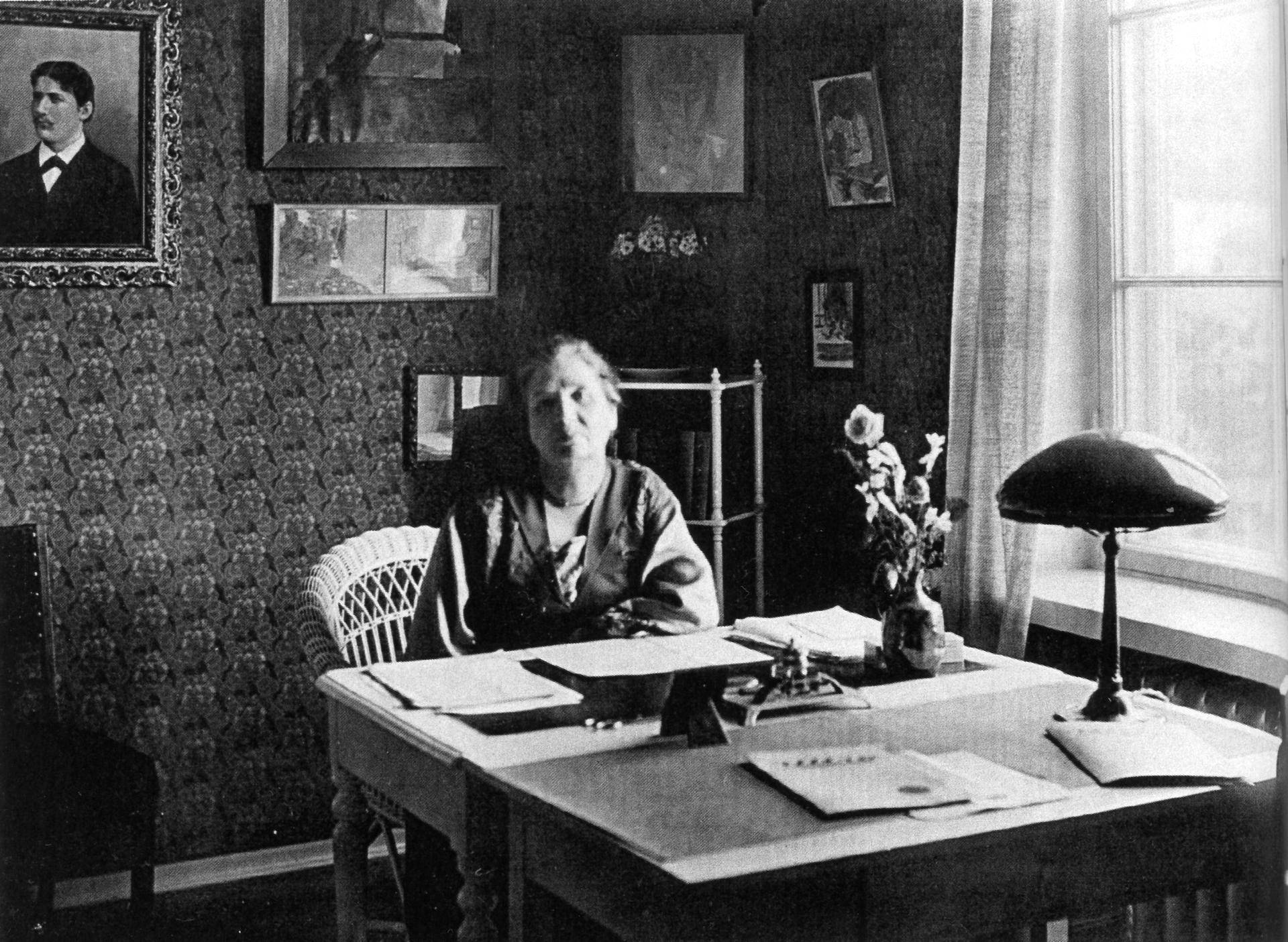 Photograph of the Finnish writer Selma Anttila (1867–1942).